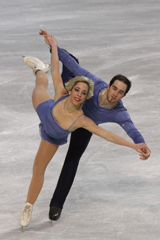 Nicole Della Monica and Yannick Kocon at the 2010 European Figure Skating Championships.